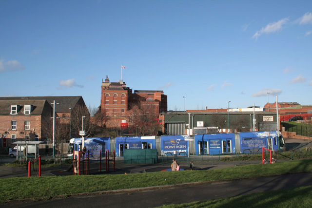 Shipstone Street Playground and Tram stop. The brewery in the background SK5542was owned by the family which gave its name to the street.